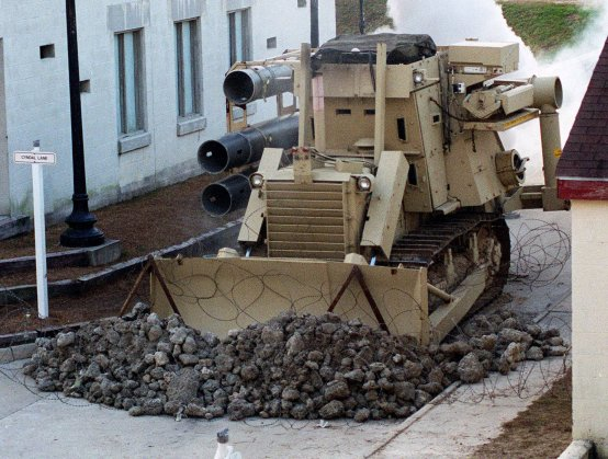 A Joint Amphibious Mine D7G Medium Tracked Bulldozer clears a path through rubble and concertina wire in the Military Operations in Urban Terrain facility at Camp Lejeune, N.C., on Jan. 22, 1998, during Urban Warrior. Urban Warrior is the U.S. Marine Corps Warfighting Laboratory's series of limited objective experiments examining new urban tactics and experimental technologies. The experiment is being conducted by the Special Purpose Marine Air-Ground Task Force (Experimental) from Quantico, Va., and Charlie Company, 1st Battalion, 6th Marines from Camp Lejeune, with support from the 2nd Marine Expeditionary Force. DoD photo by Sgt. Jason J. Bortz, U.S. Marine Corps.